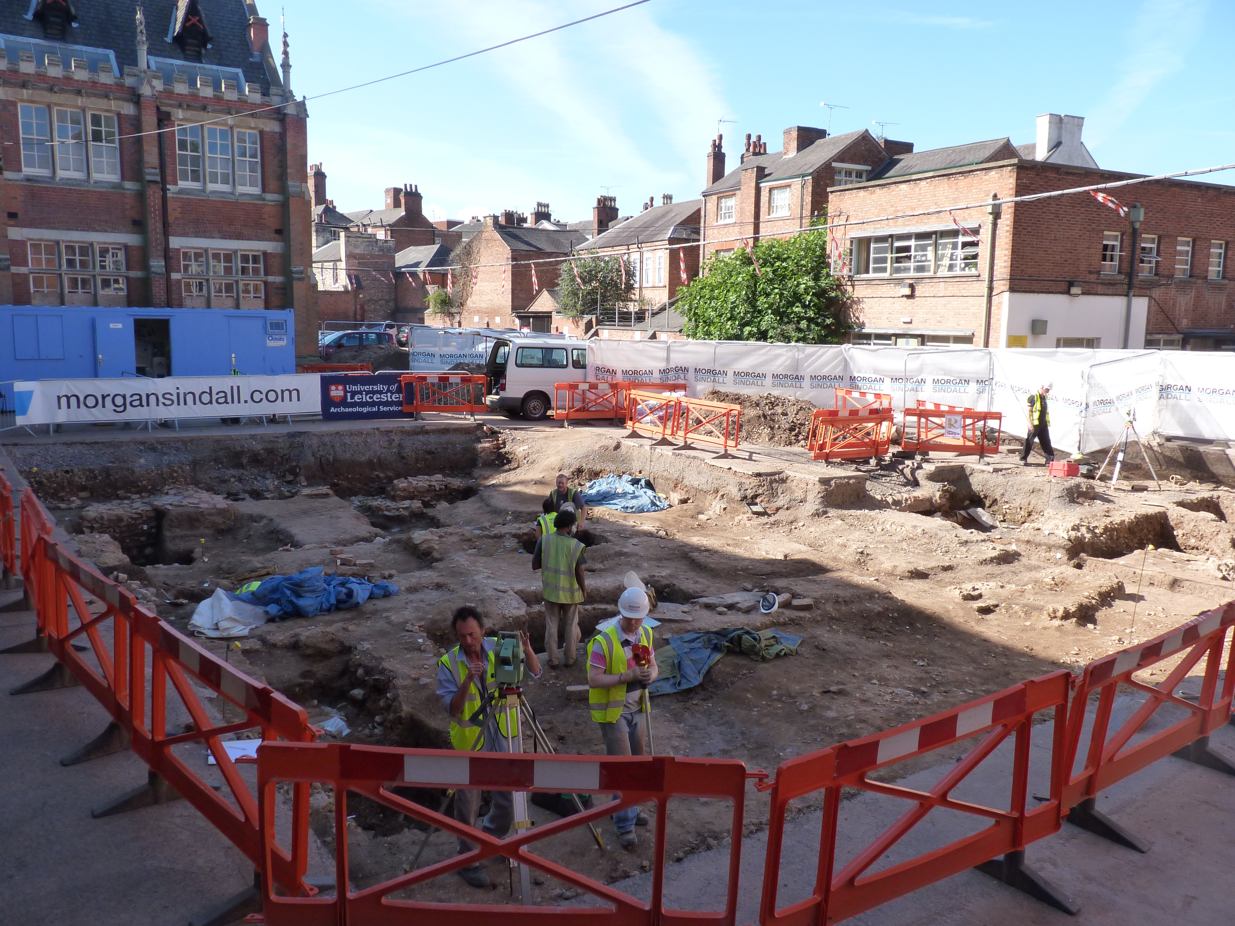 Follow-up excavation of the site of Richard III's burial (far right of picture) revealed more robbed out walls, floors, and choir stalls of the priory church of Leicester Greyfriars.